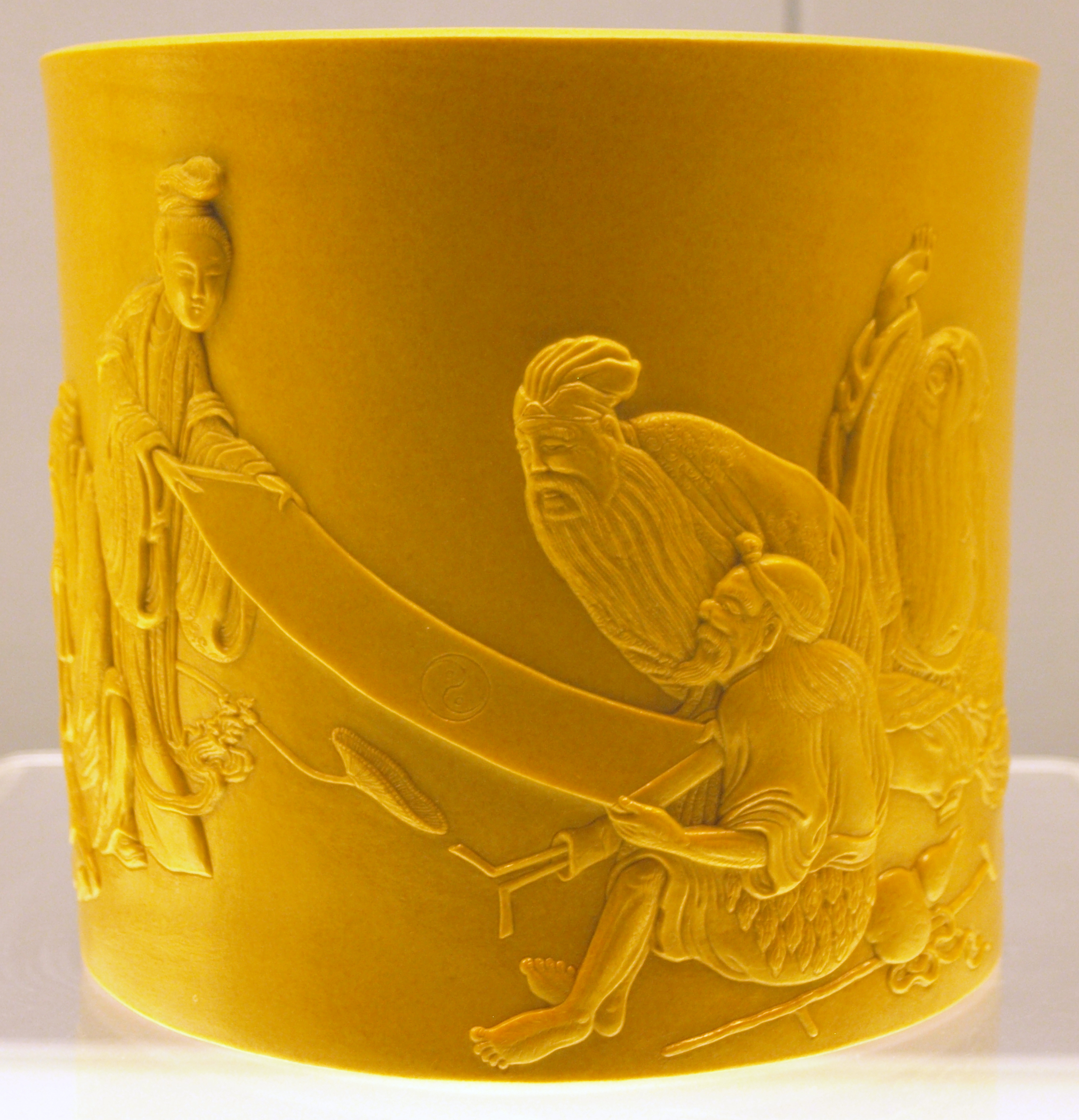 Yellow-glazed brush-holder bearing the mark "Chen Guo Zhi". Jingdezhen Ware, from the reign of emperor Daoguang (1821-1850 AD), Qing dynasty. On display at the Shanghai Museum.